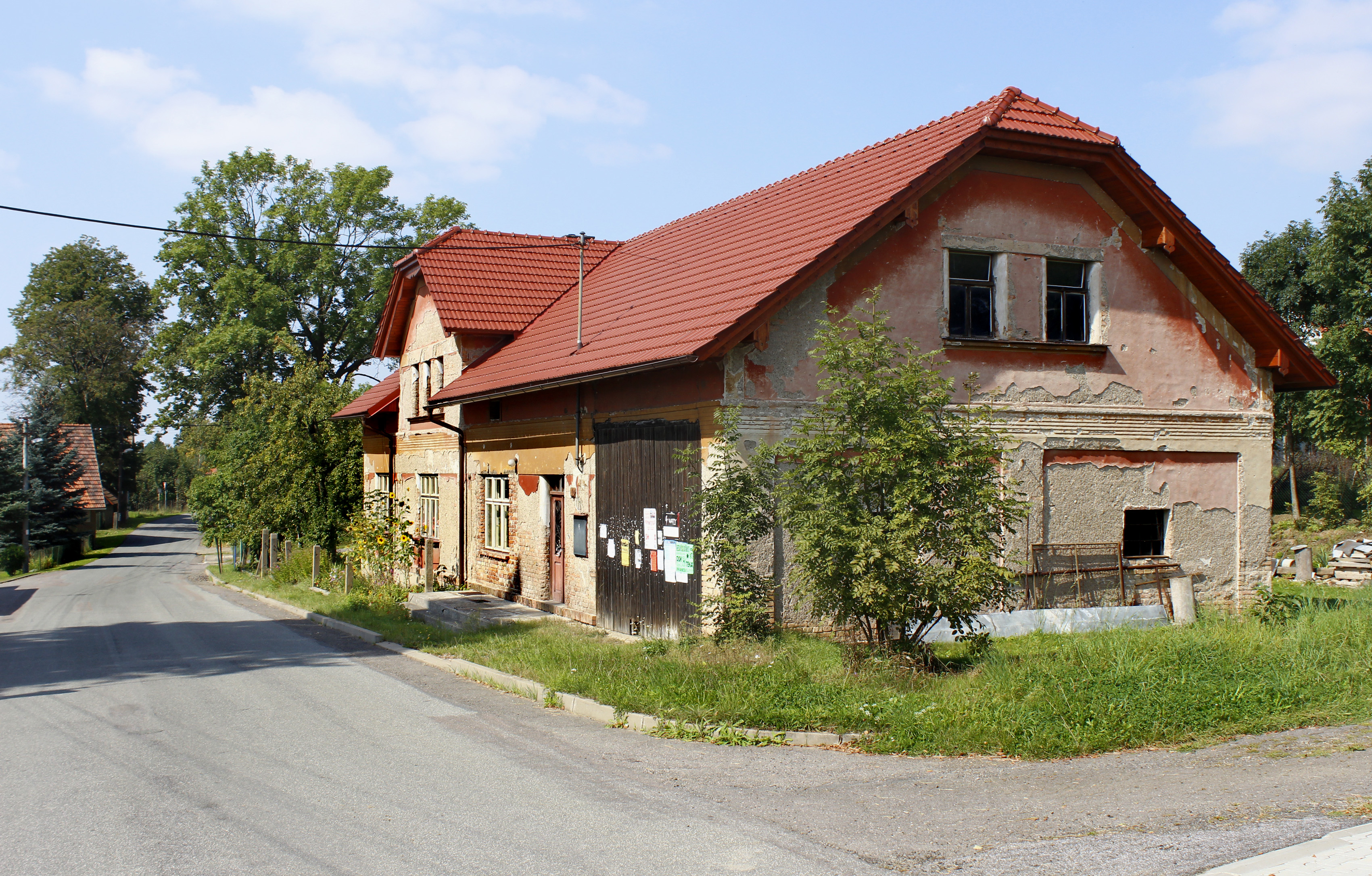 East part of Lhota Netřeba, part of Podbřezí, Czech Republic